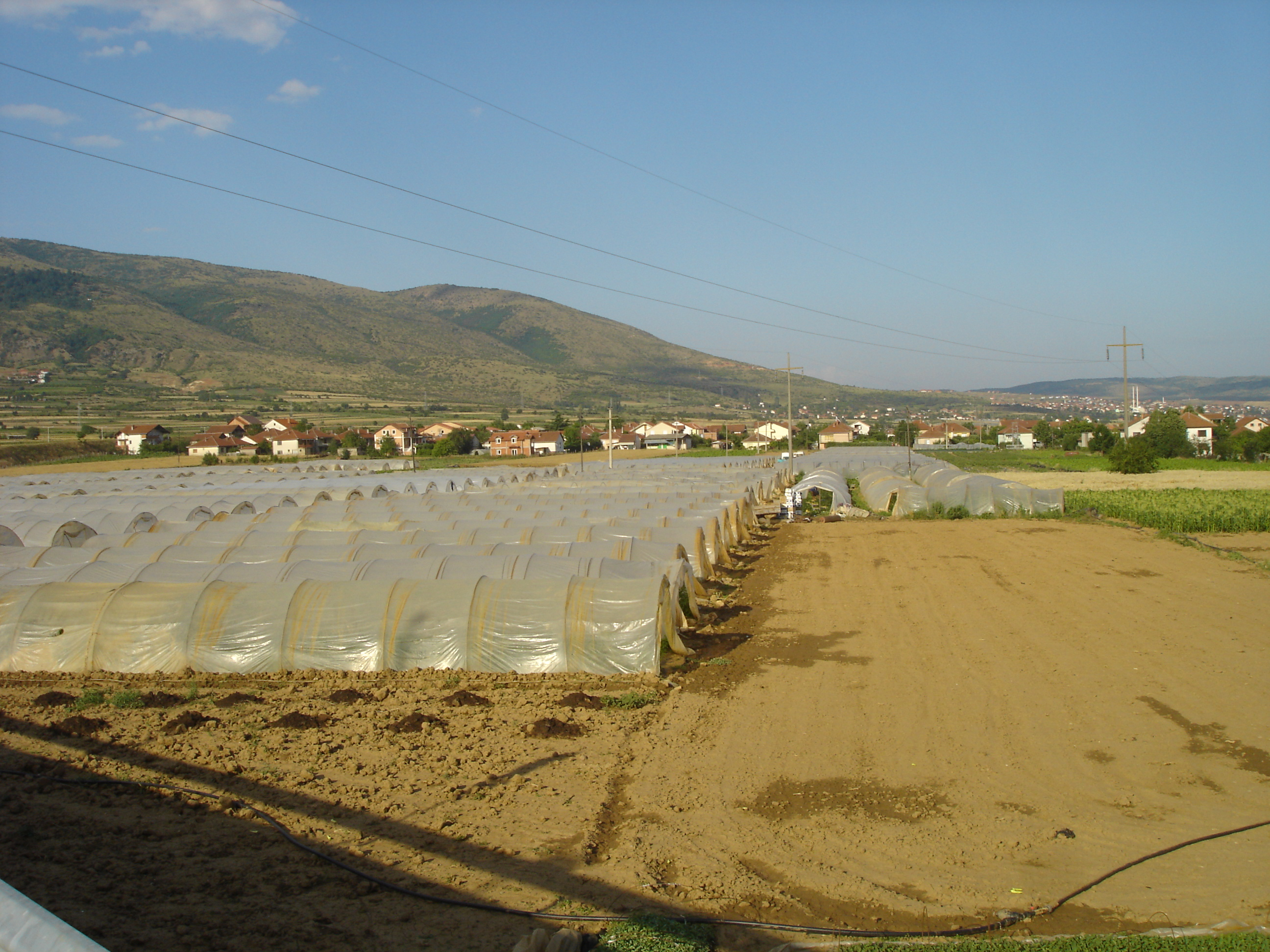 village of Stajkovci, Macedonia